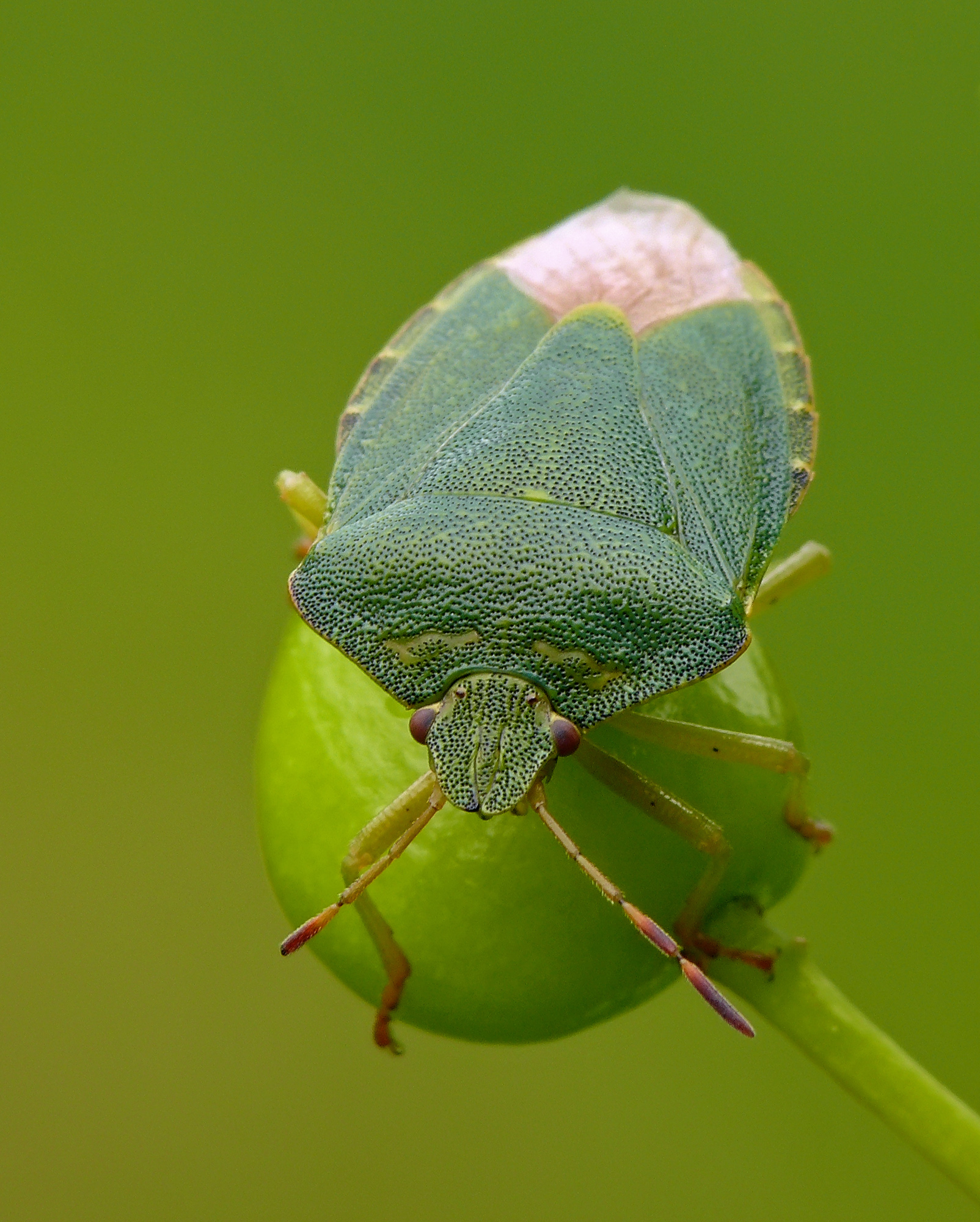 A Green shield bug (Palomena prasina). Photo taken: village Knistushki, Belarus